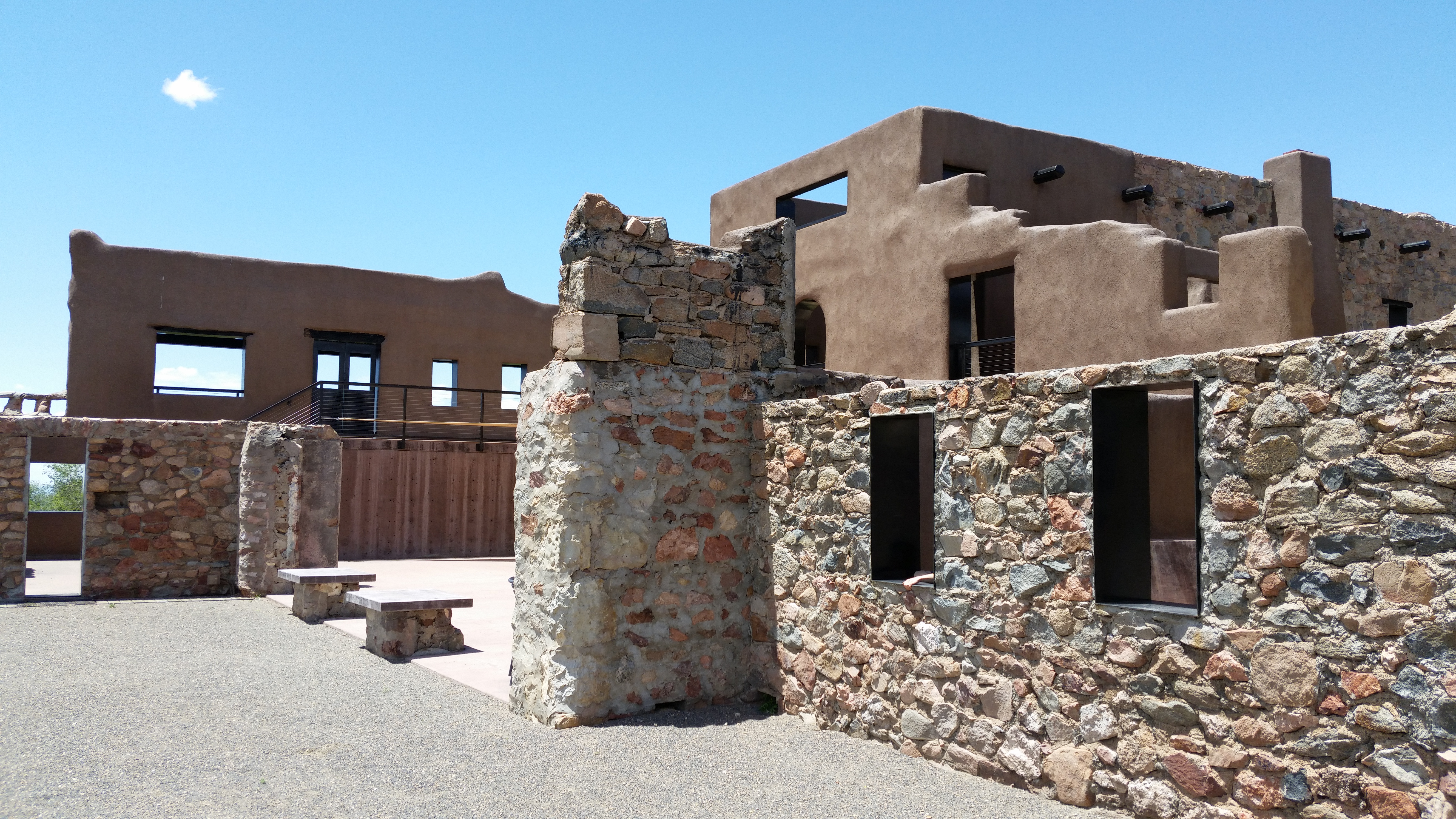 On the grounds of the Academy for the Love of Learning in Santa Fe County, NM